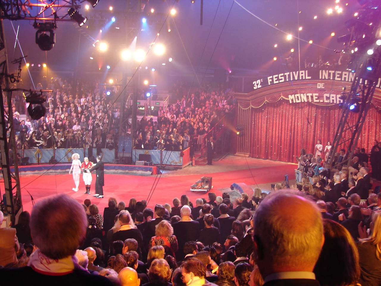 Photo of Scott & Muriel in the 32nd International Circus Festival of Monte Carlo, 2008